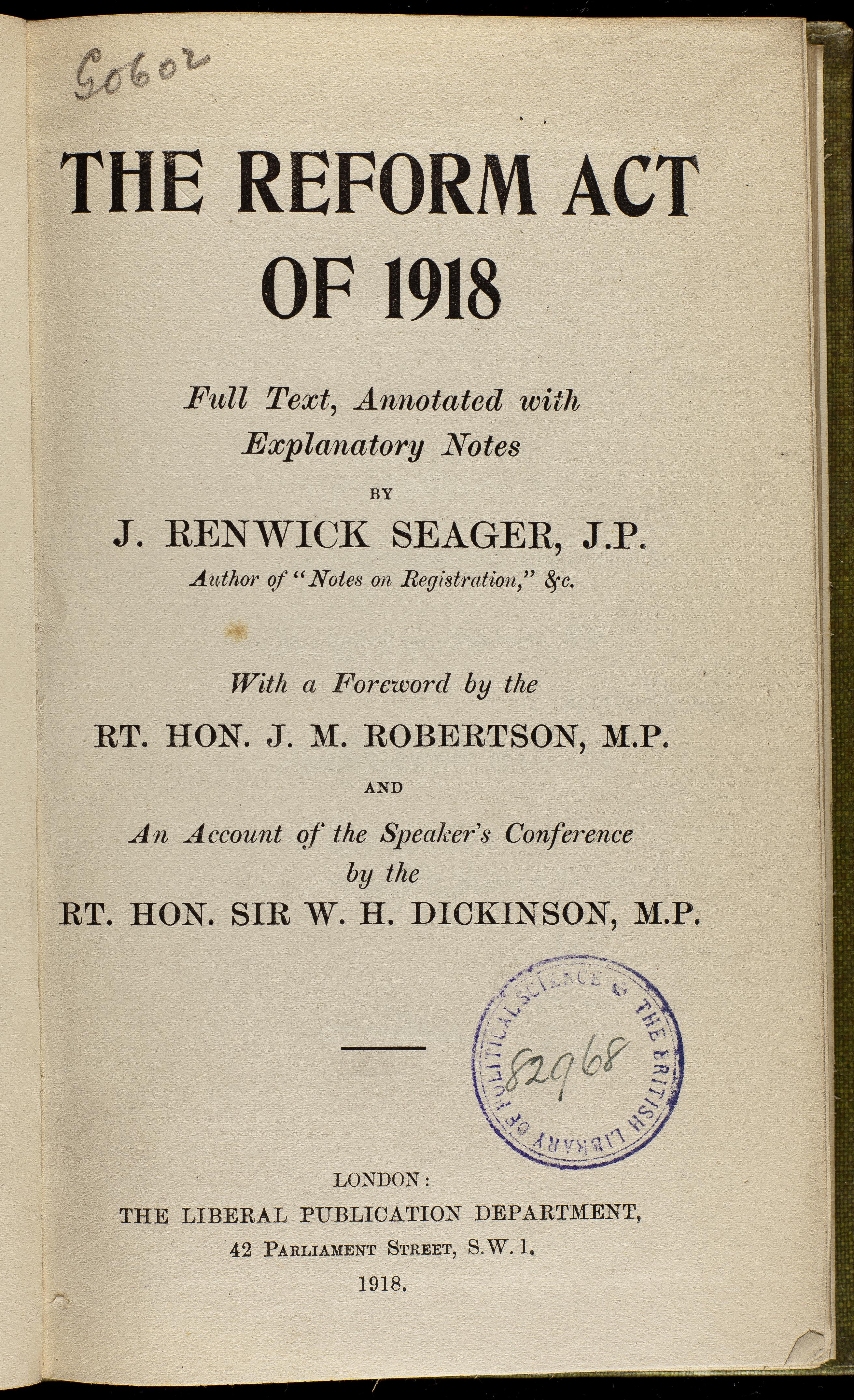 JN1014 S43